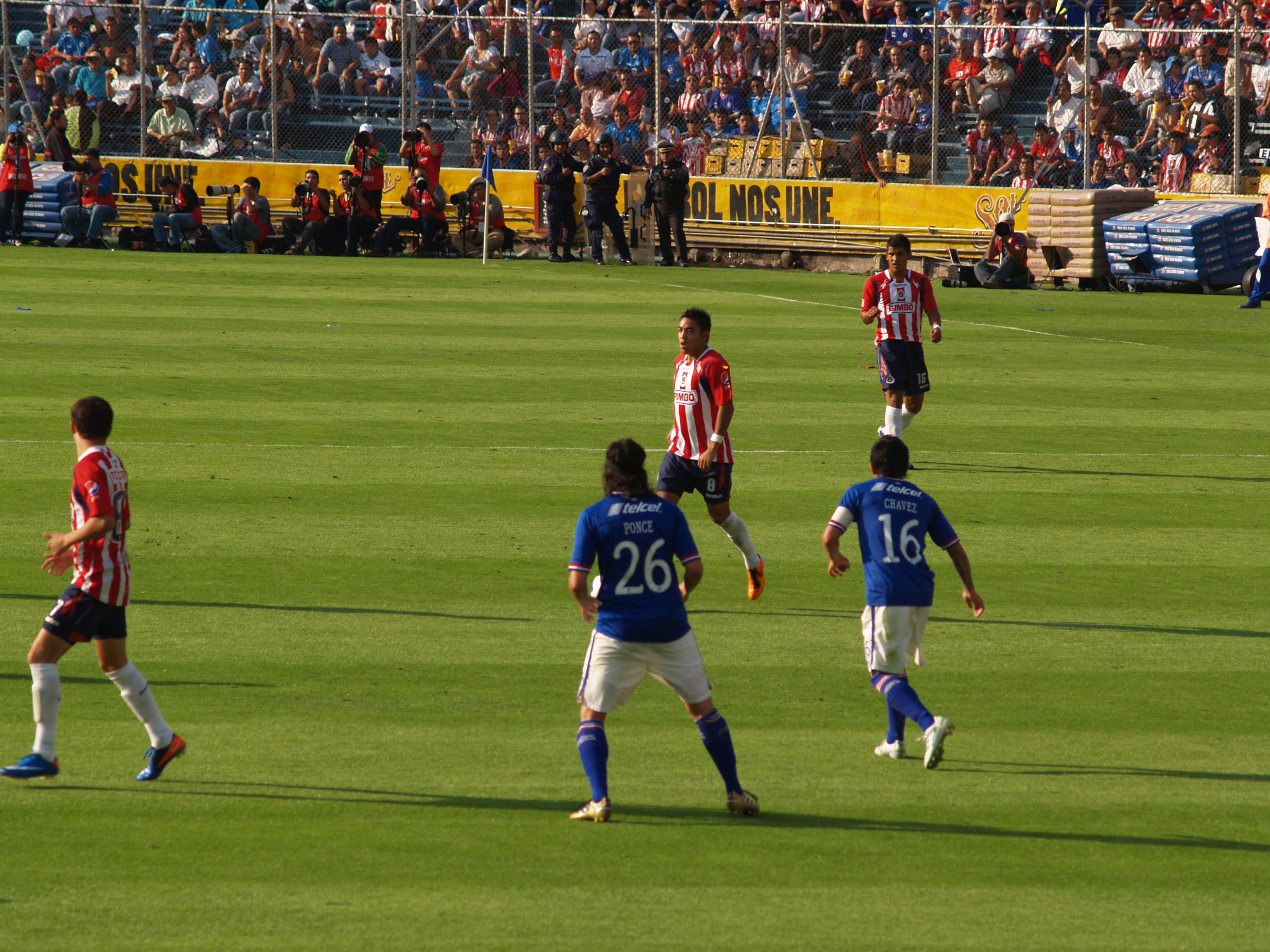 Marco Fabian as a player for Chivas.